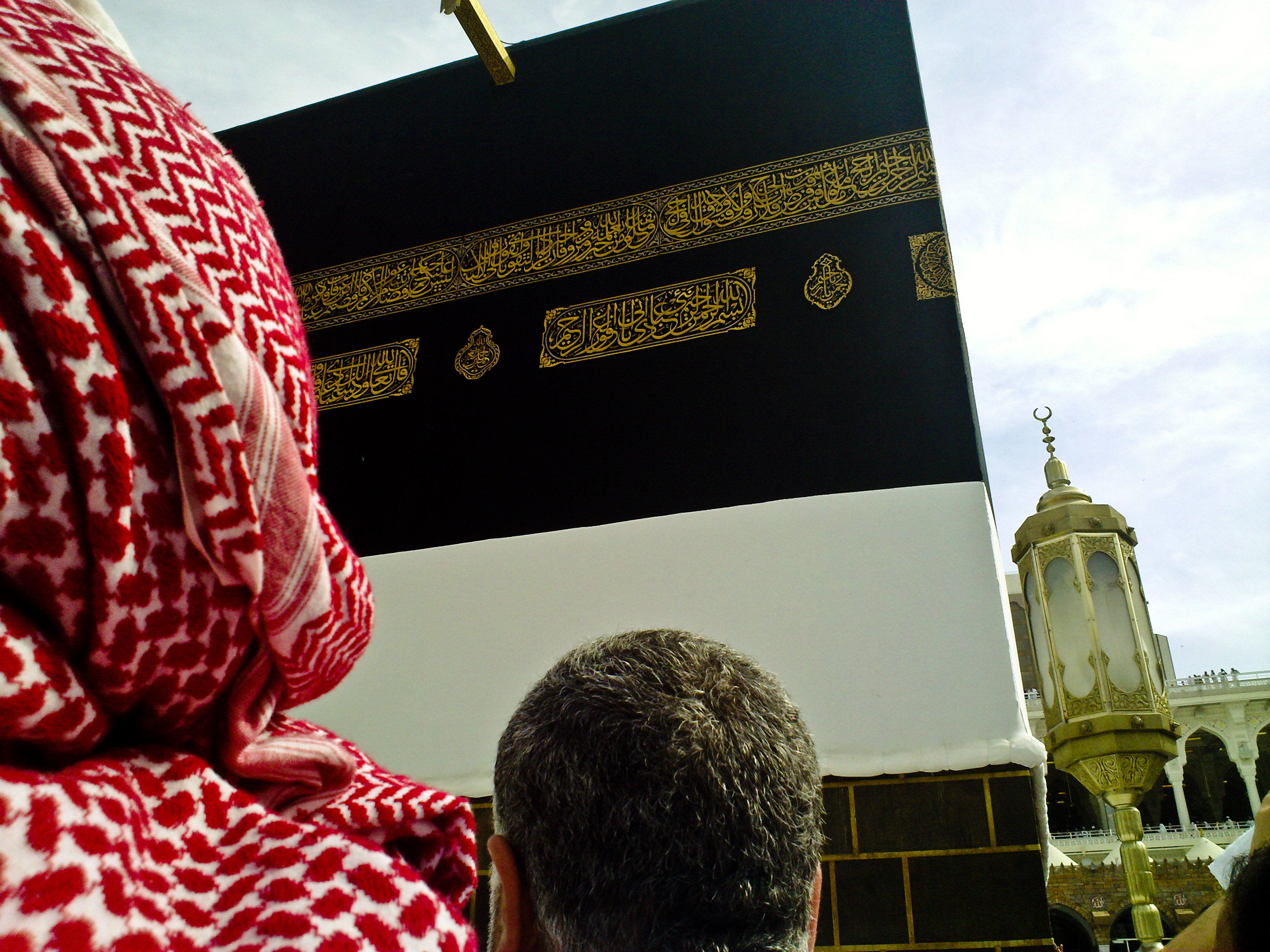 A close view of the Kaaba